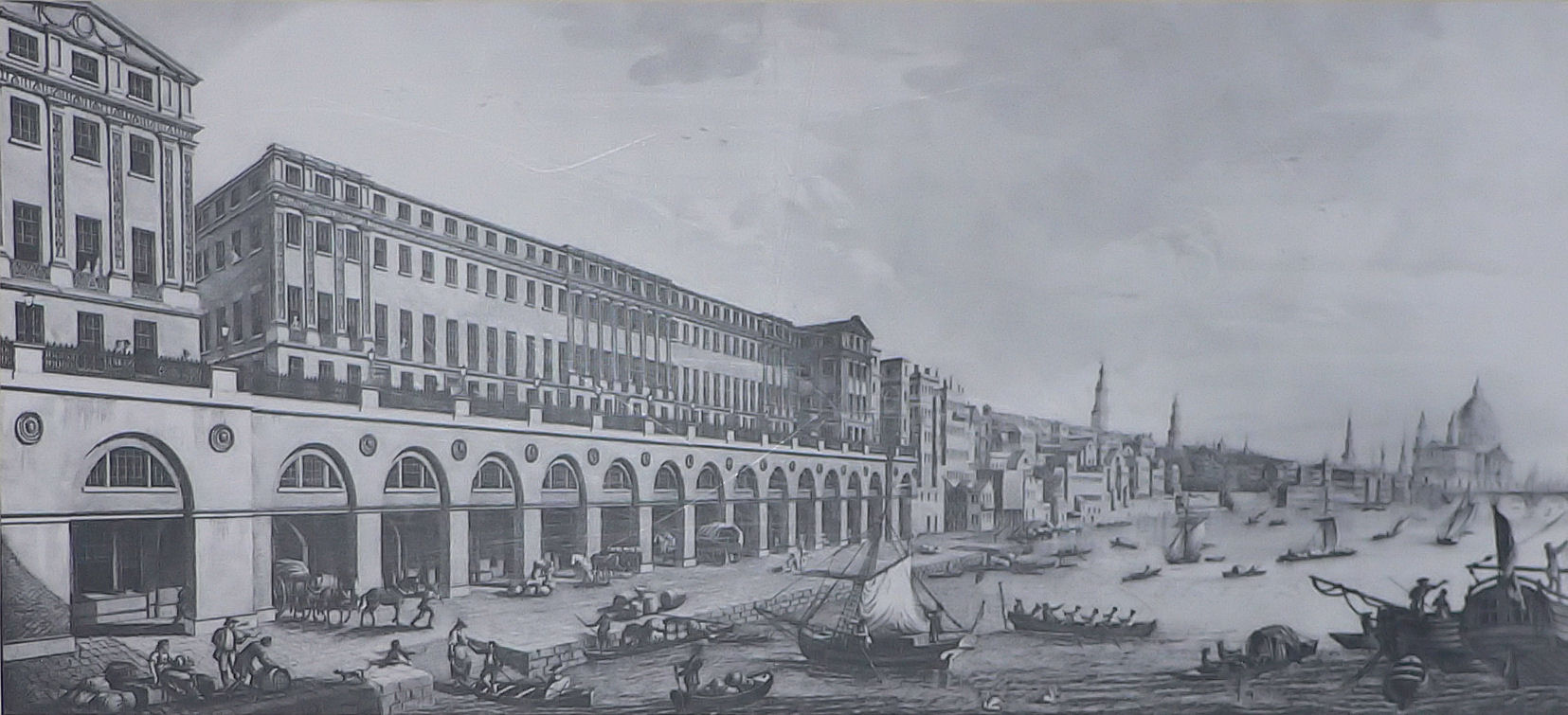 The Adam Brothers' Adelphi (1768-72) was London's first neo-classical building. Eleven large houses fronted a vaulted terrace, with wharves beneath.